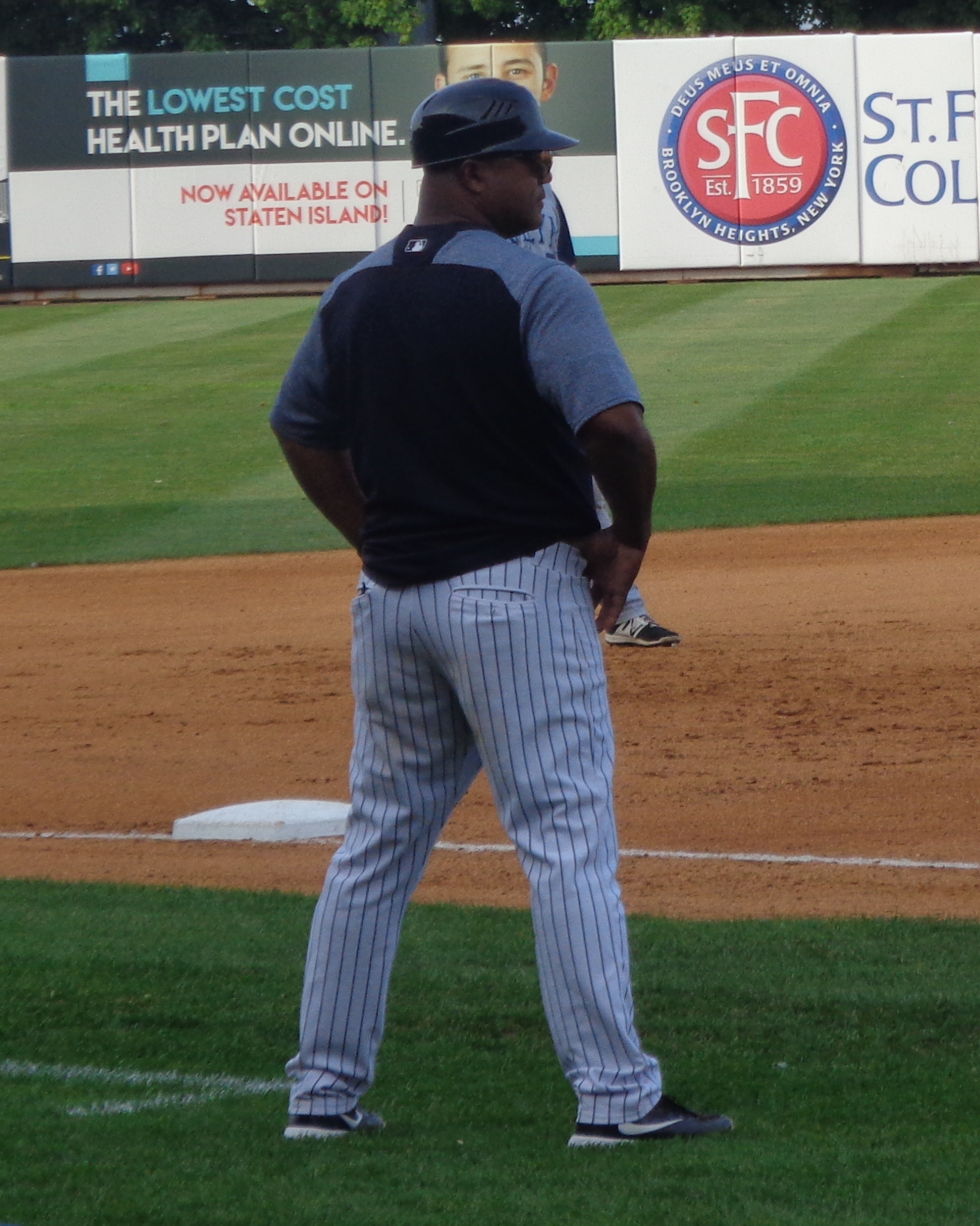 Staten Island Yankees manager and former Major League catcher Julio Mosquera coaches third base during the bottom of the fourth inning of the SI Yankees vs Brooklyn Cyclones game on August 27, 2017.